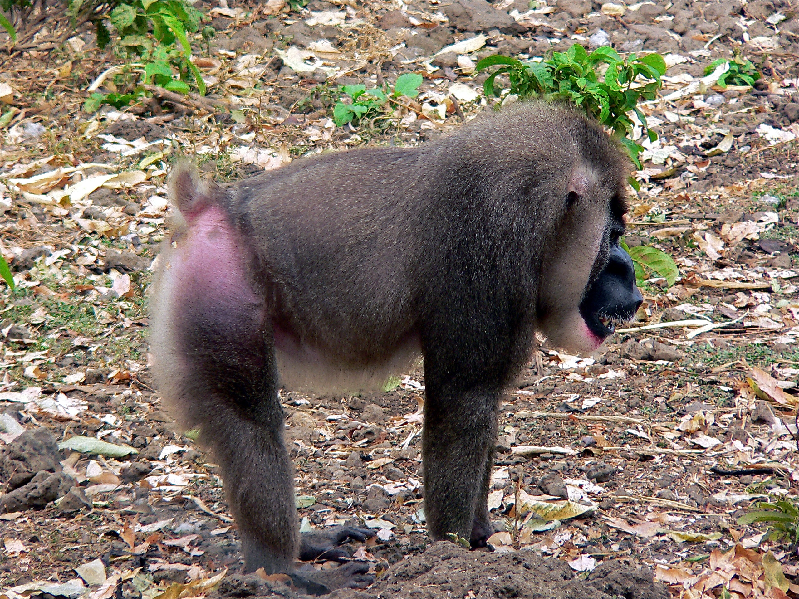 Limbe Wildlife Center, CAMEROON